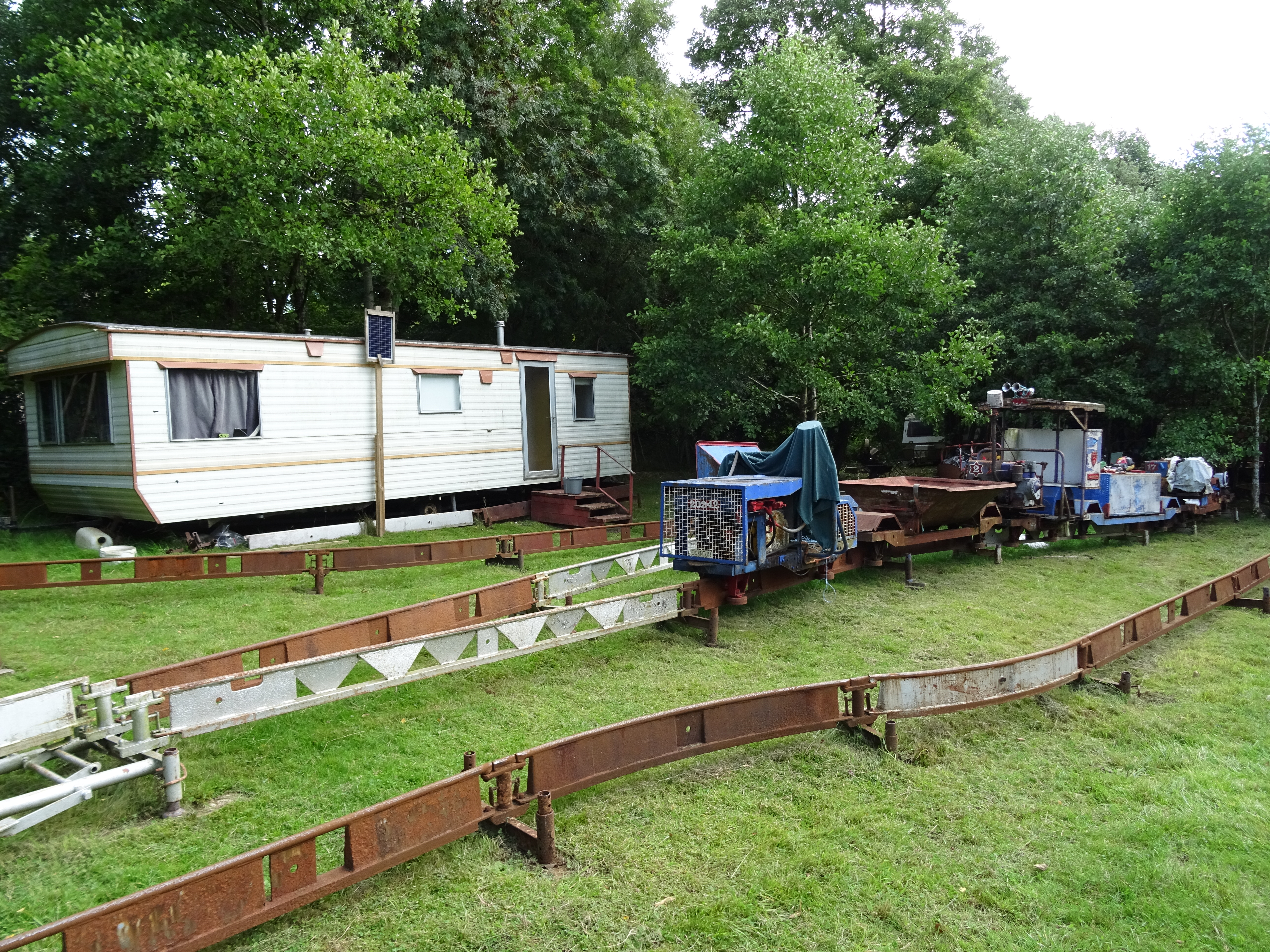 Portable industrial monorail designed in the 1940s by Road Machines (Drayton) Ltd and used for construction projects in the mid 20th century. Acquired by the Tanat Valley Light Railway in Shropshire, England around 2016.